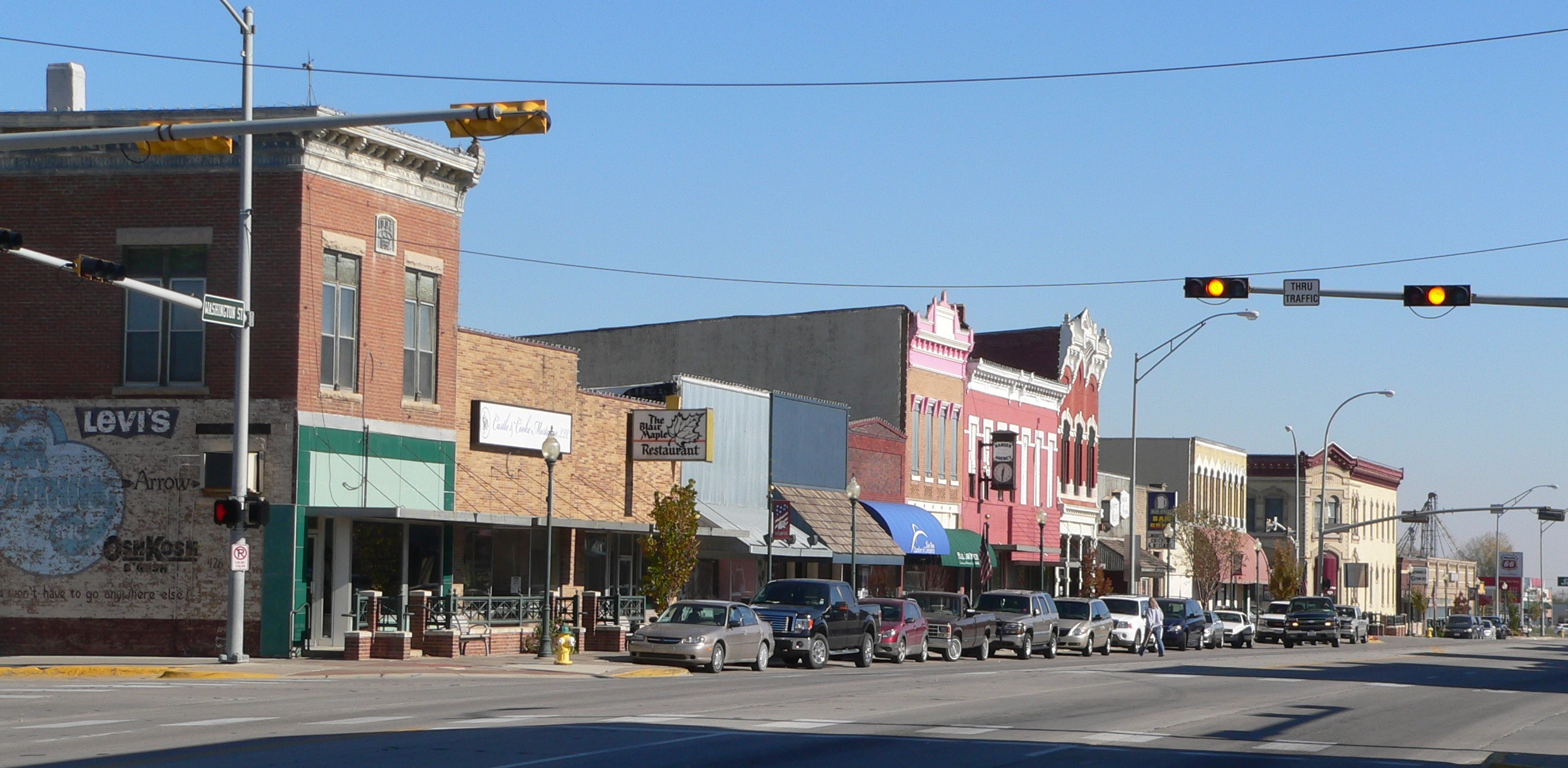 Downtown Blair, Nebraska: north side of Washington Street, looking northeast from about 18th Street.